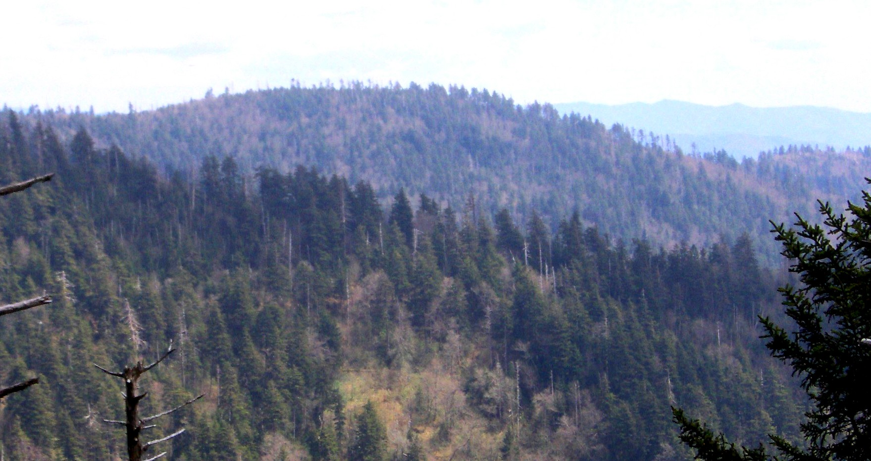 Marks Knob, rising beyond the southern flank of Tricorner Knob, looking southeast from Mount Guyot in the Great Smoky Mountains National Park of North Carolina. This view is from the Appalachian Trail, appx. 1 mile beyond (north of) the Tricorner Knob Shelter.